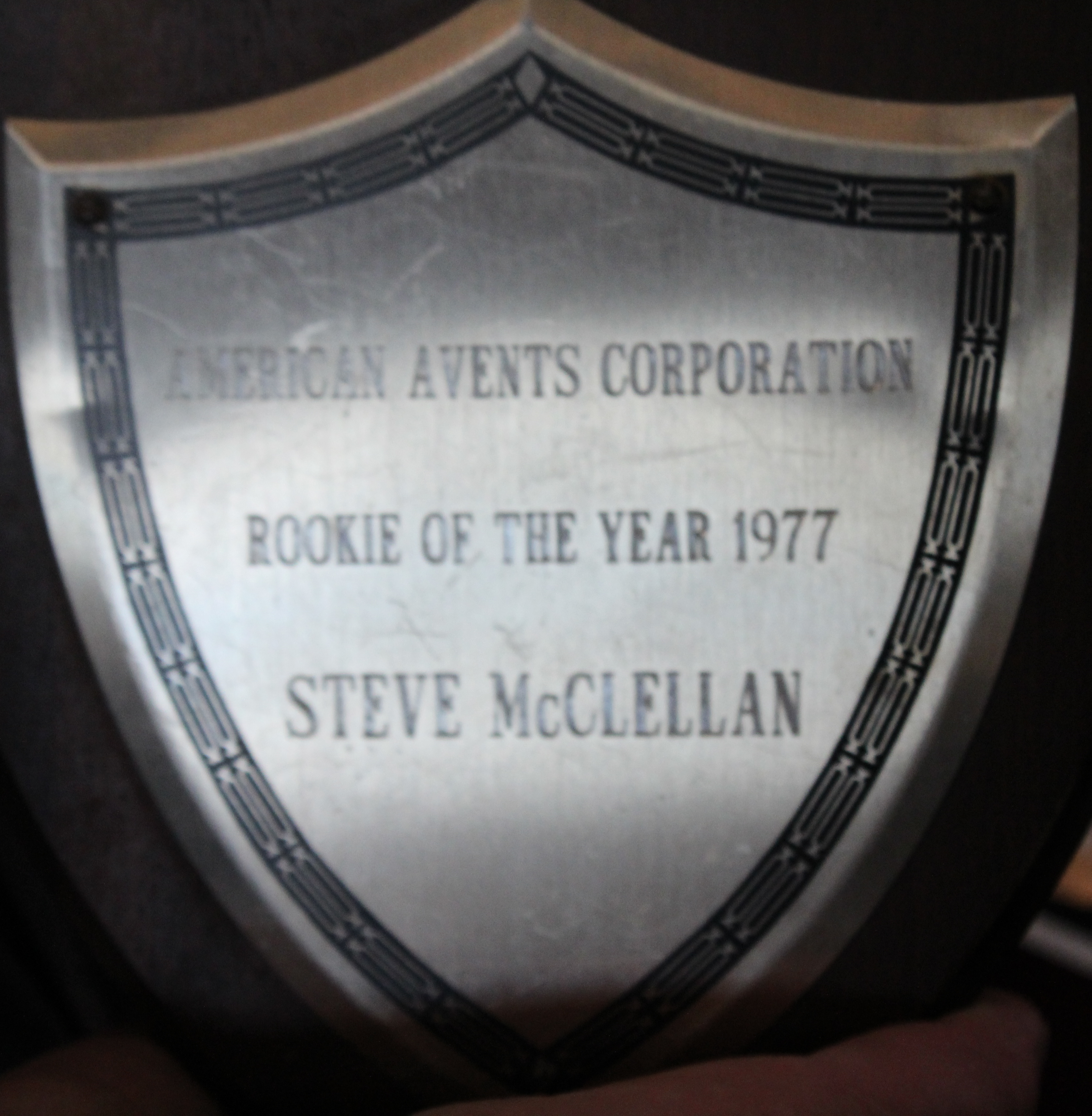 Rookie of the Year 1977, awarded to Steve McClellan by American Events Corporation